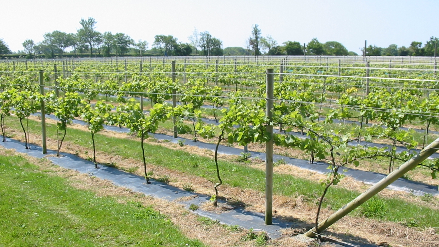 Sights of the Northern Parishes of Jersey. An example of VSP or vertical vine trellising Nrf: Eune touônnée au mais d'Mai siez les Nordgiens en Jèrri